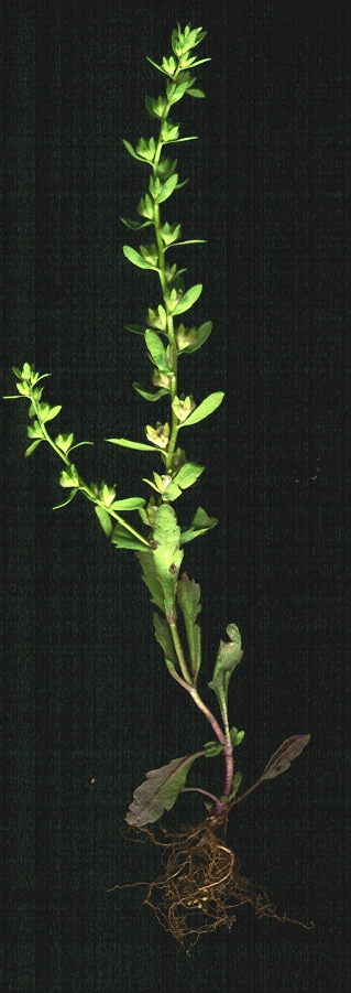 Veronica peregrina (plant). Location: Maui, Makawao